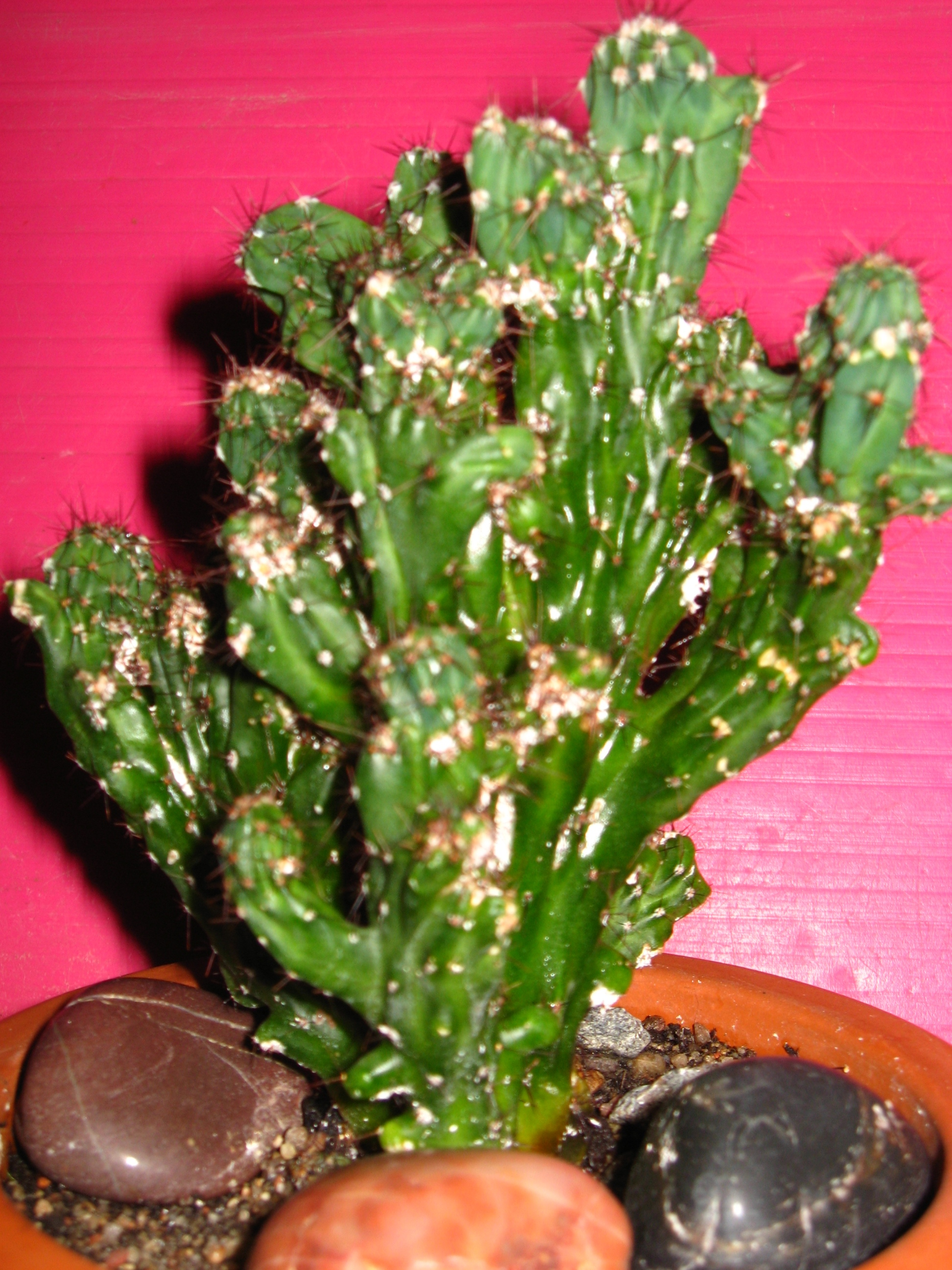 Cactus Cereus peruvianus monstrosus. Peruvian cereus monstrose form. Photo author Jüri Goltsov.